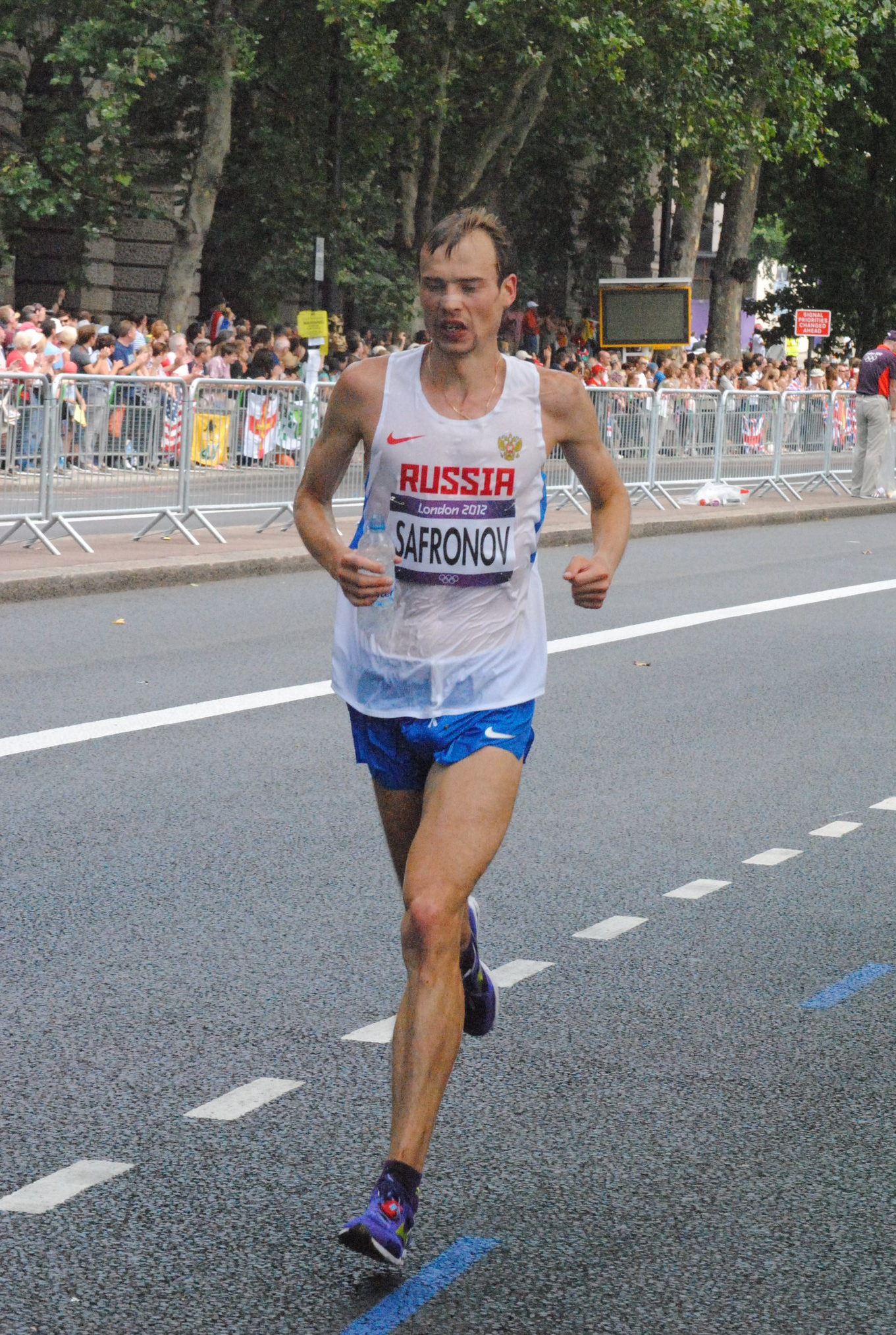 The men's marathon of the 2012 Summer Olympics in London, UK took place on an Olympic marathon street course on Sunday 12th August 2012 at 11:00. This was the final day of the 30th Olympic Games. The London 2012 marathon course is the standard Olympic distance of 26 miles 385 yards and consists of one short lap of approx 2.2 miles followed by three longer laps of 8 miles. The course began on The Mall and travelled past several of the most famous London landmarks. The start/finish line was near the Victoria Memorial. These photographs were taken at the Victoria Embankment. This featured several times on the looped course. The approximate location from the photographs is shown in the Google StreetView Link below. Stephen Kiprotich won in 2 hours, 8 minutes, 1 second as he pulled away from the Kenyan duo of Abel Kirui and Wilson Kiprotich Kipsang. These photographs are unofficial photographs. They are not endorsed by London 2012. There are not commercially available. They are available for use under a Creative Commons License. Please link back to the photograph on my Flickr account if you use the image.